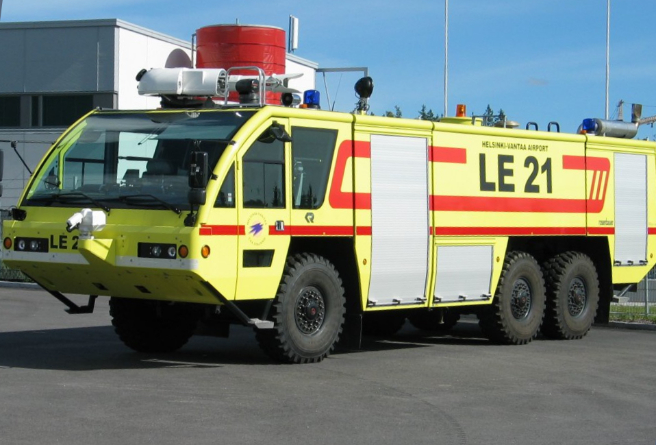 Rosenbauer Panther airport crash tender at Helsinki-Vantaa Airport